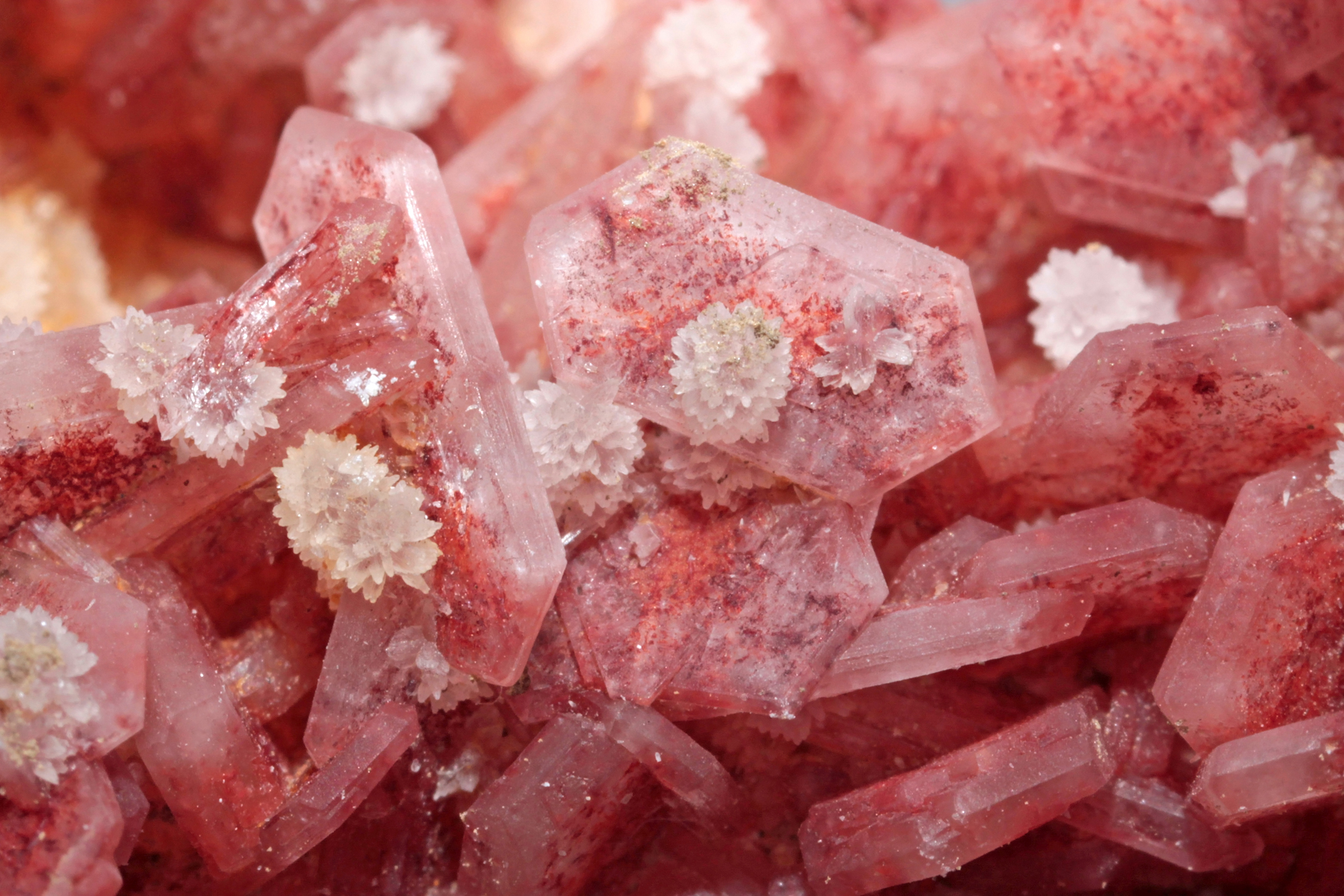 crystals of quartz var. chacedony, crystals of stilbite : Lonavala Quarry, Lonavale (Lonavala), Pune District (Poonah District, Maharashtra, India